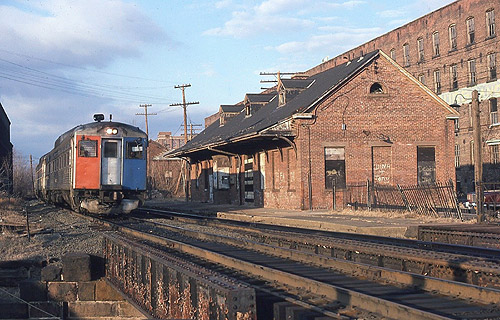 Amtrak RDCs at Thompsonville station in January 1980